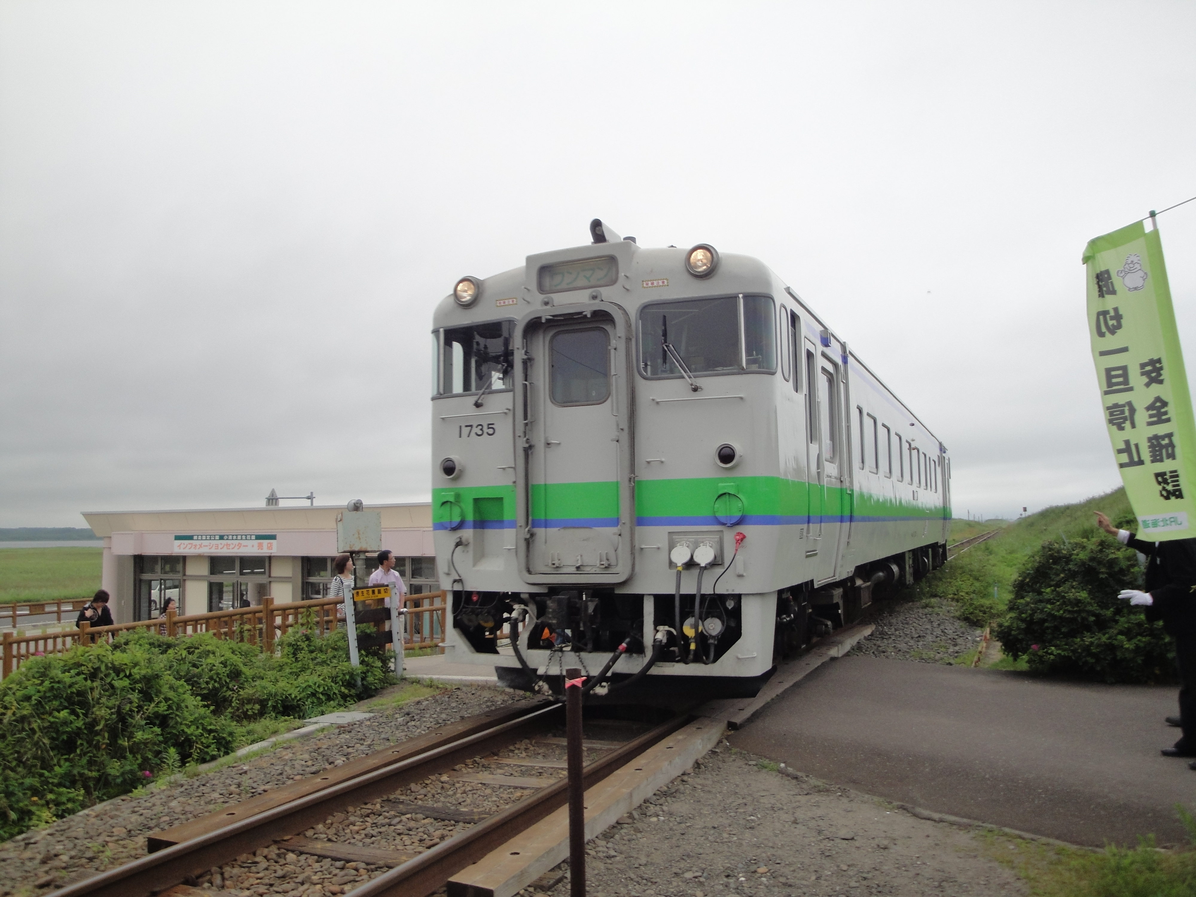 Train into Genseikaen Station